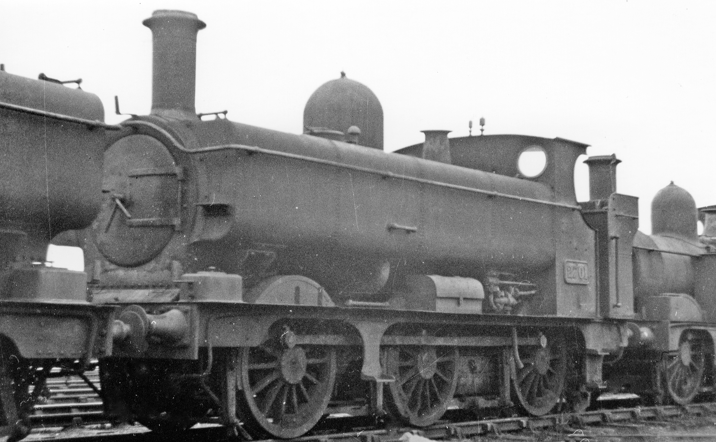 Old GWR 0-6-0PT of '655' class dumped outside Swindon Works, 1947From hundreds of the class at the turn of the 19th century, many survived World War Two, even a few until after Nationalisation: No. 2701 had been built at Wolverhampton in 1/1896 and was withdrawn in 11/45 - but was still on the Swindon Dump in 1947.